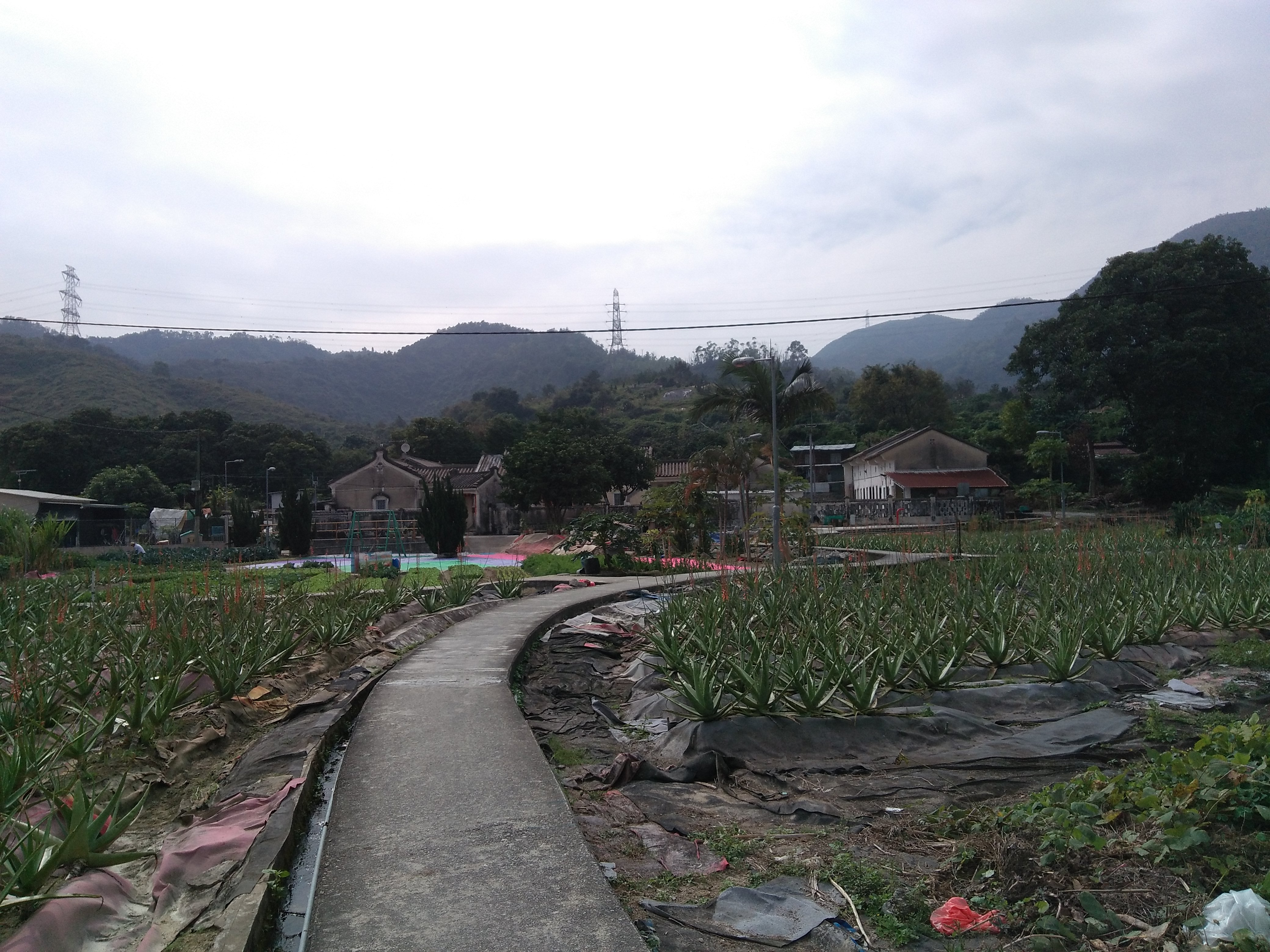 Hong Kong